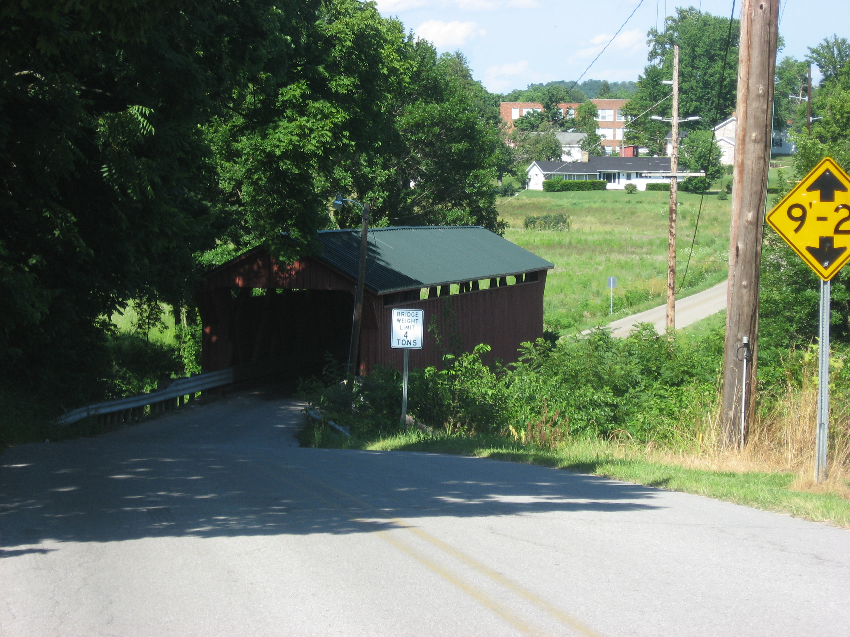 Western end of the South Salem Covered Bridge, which carries Lower Twin Road across Buckskin Creek just west of South Salem in Buckskin Township, Ross County, Ohio, United States. Built in 1873, this Smith truss bridge is listed on the National Register of Historic Places.